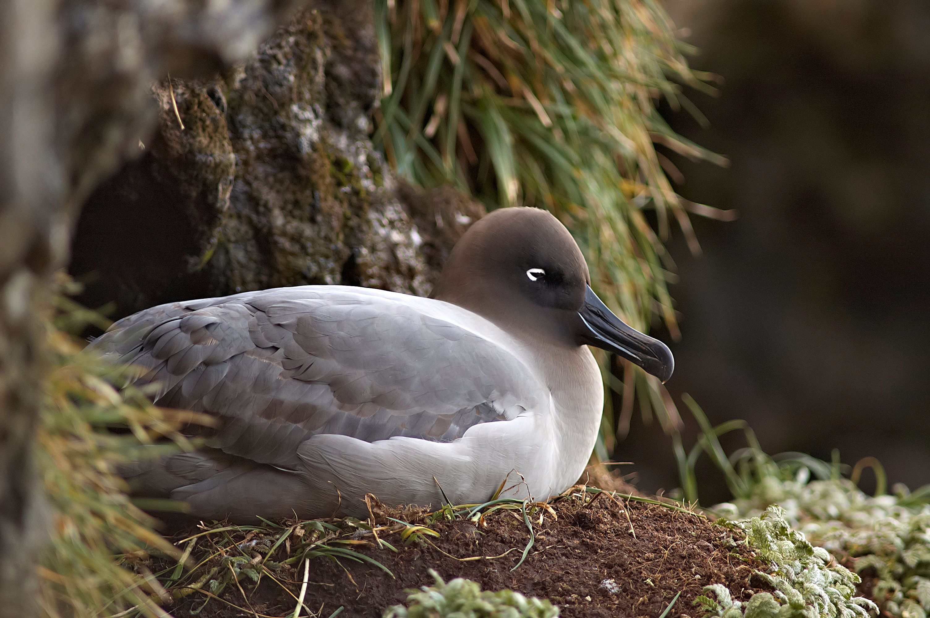 Light-mantled Albatross Nesting